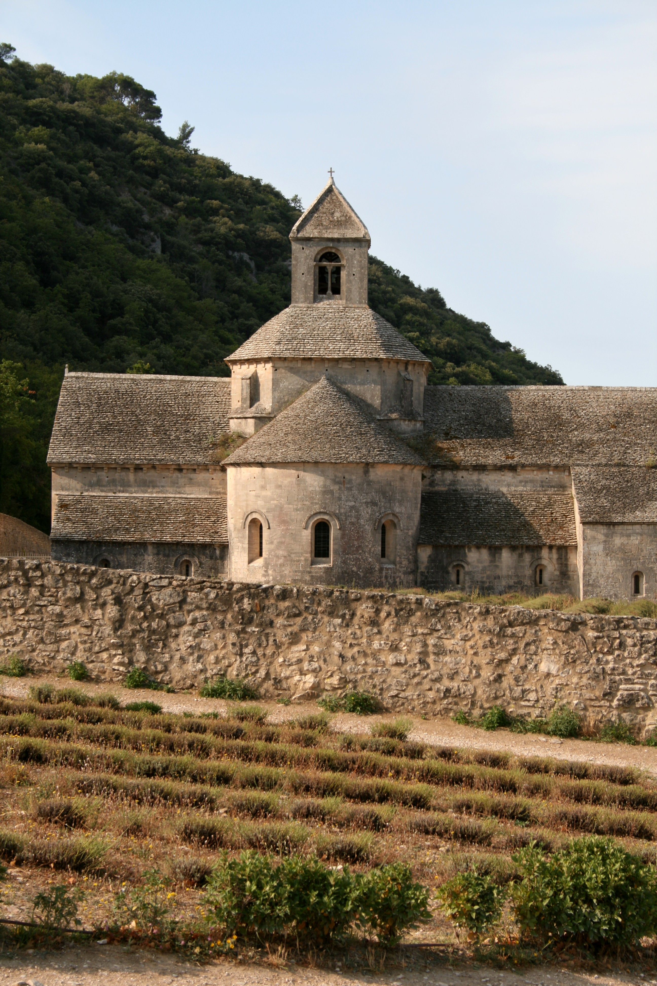 Abbaye de Sénanque, France